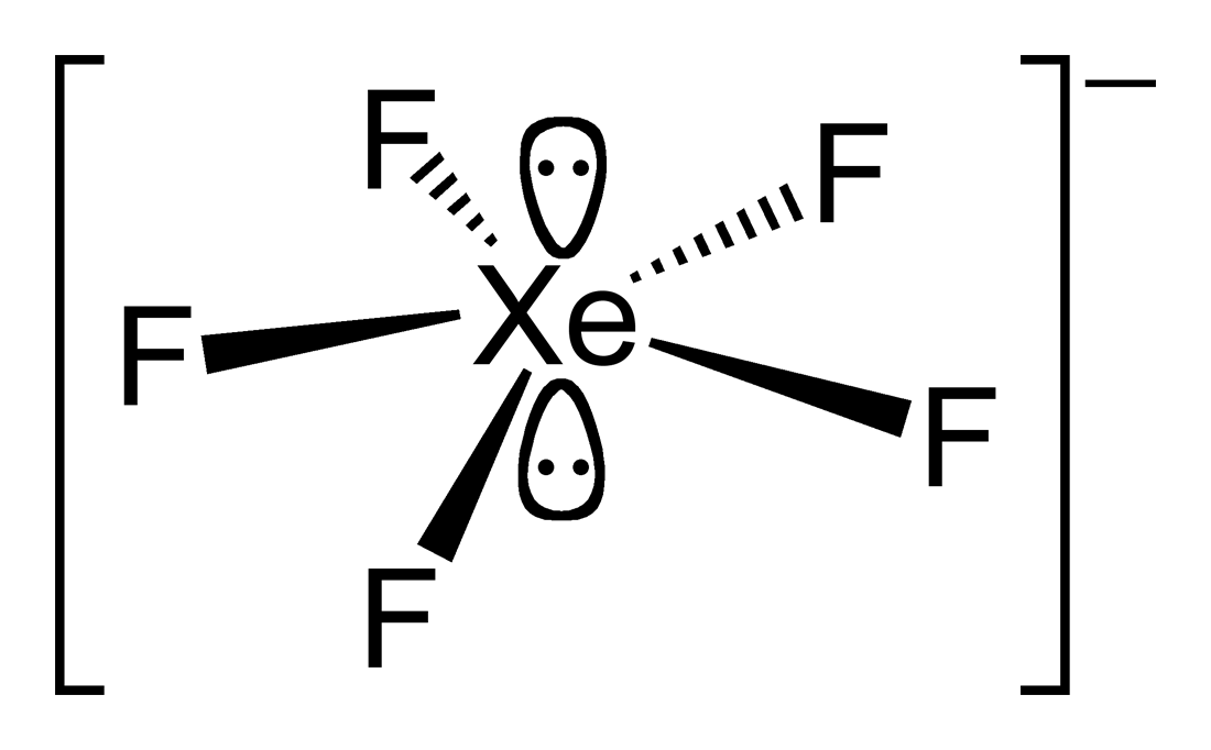 Structural formula of the pentafluoroxenate ion, [XeF5]−, from the crystal structure of tetramethylammonium pentafluoroxenate, [N(CH3)4][XeF5]. X-ray crystallographic data from J. Am. Chem. Soc. (1991) 113 3351-3361. Model constructed in CrystalMaker 8.1. Image generated in Accelrys DS Visualizer.